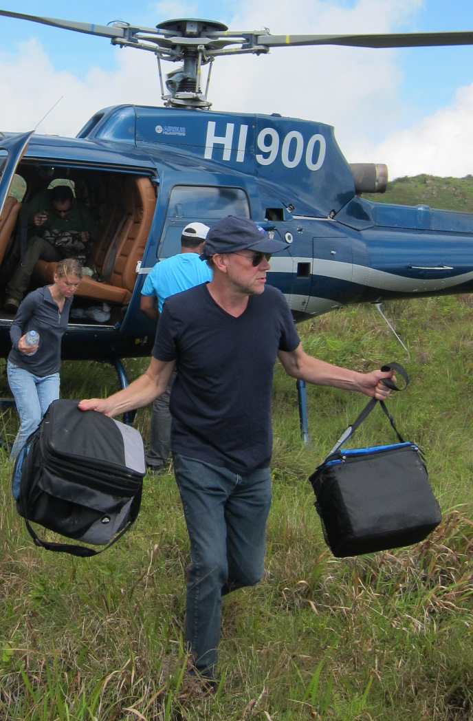 Getting off a helicopter for a science expedition in Haiti